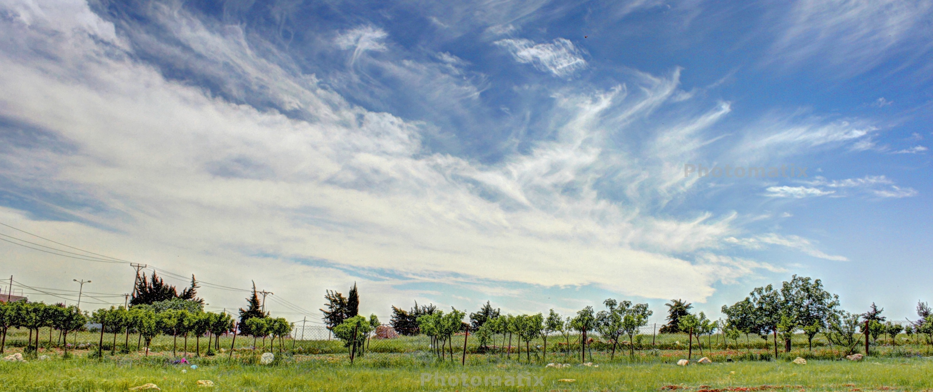 Ras Muneef, the highest area at Ajloun Governorate, Northern Jordan